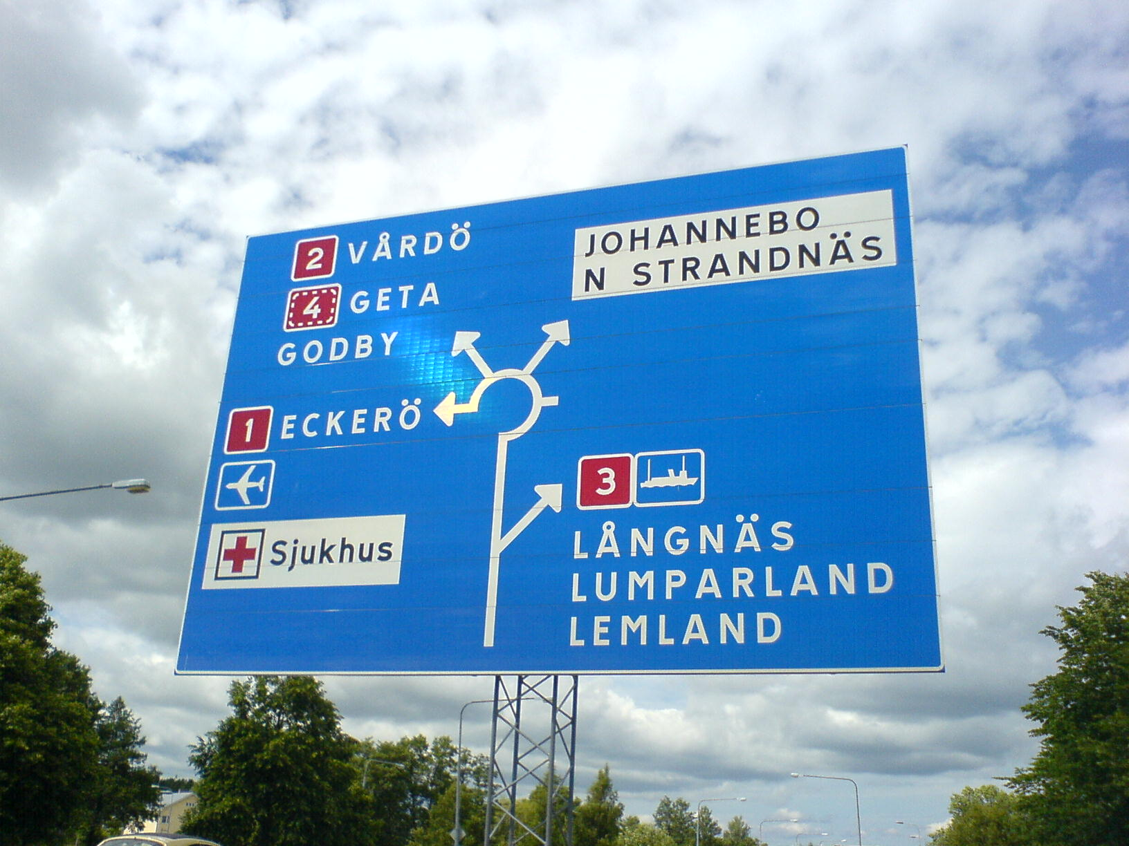 Road sign in Mariehamn, Åland, Finland